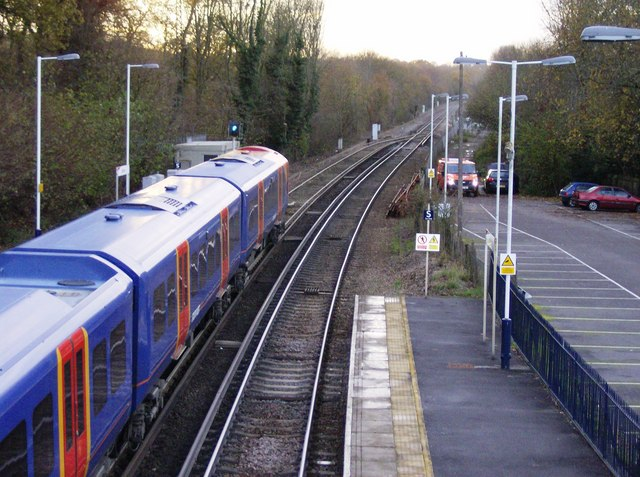 Bentley station The train has the green light to go onto the single track section. Trains usually pass here, despite the terminus being at Alton, the next station. This must be because of timetable constraints elsewhere on the route.